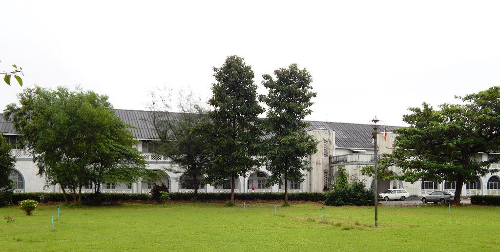 Yangon Institute of Education, Burma